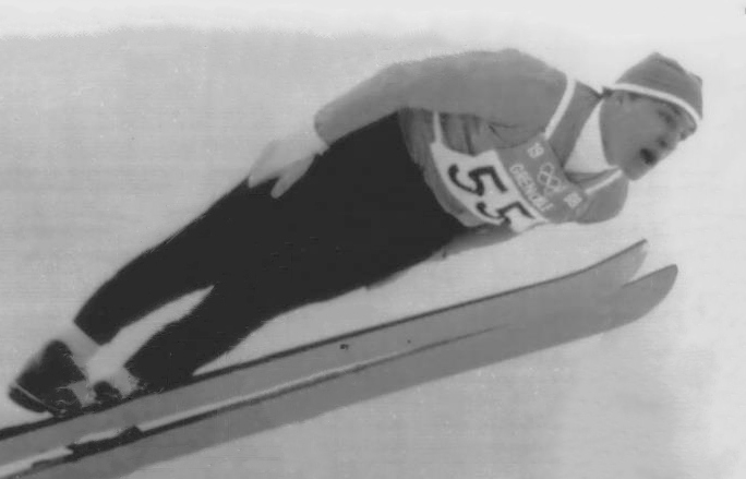 1968 Press Photo Vladimir Beloussov Olympic gold medalist for 90m ski jumping